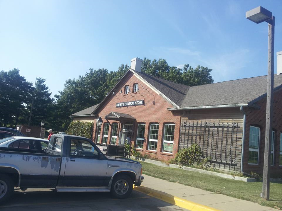 An unusual Casey's General Store in Amana Colonies, Iowa, USA